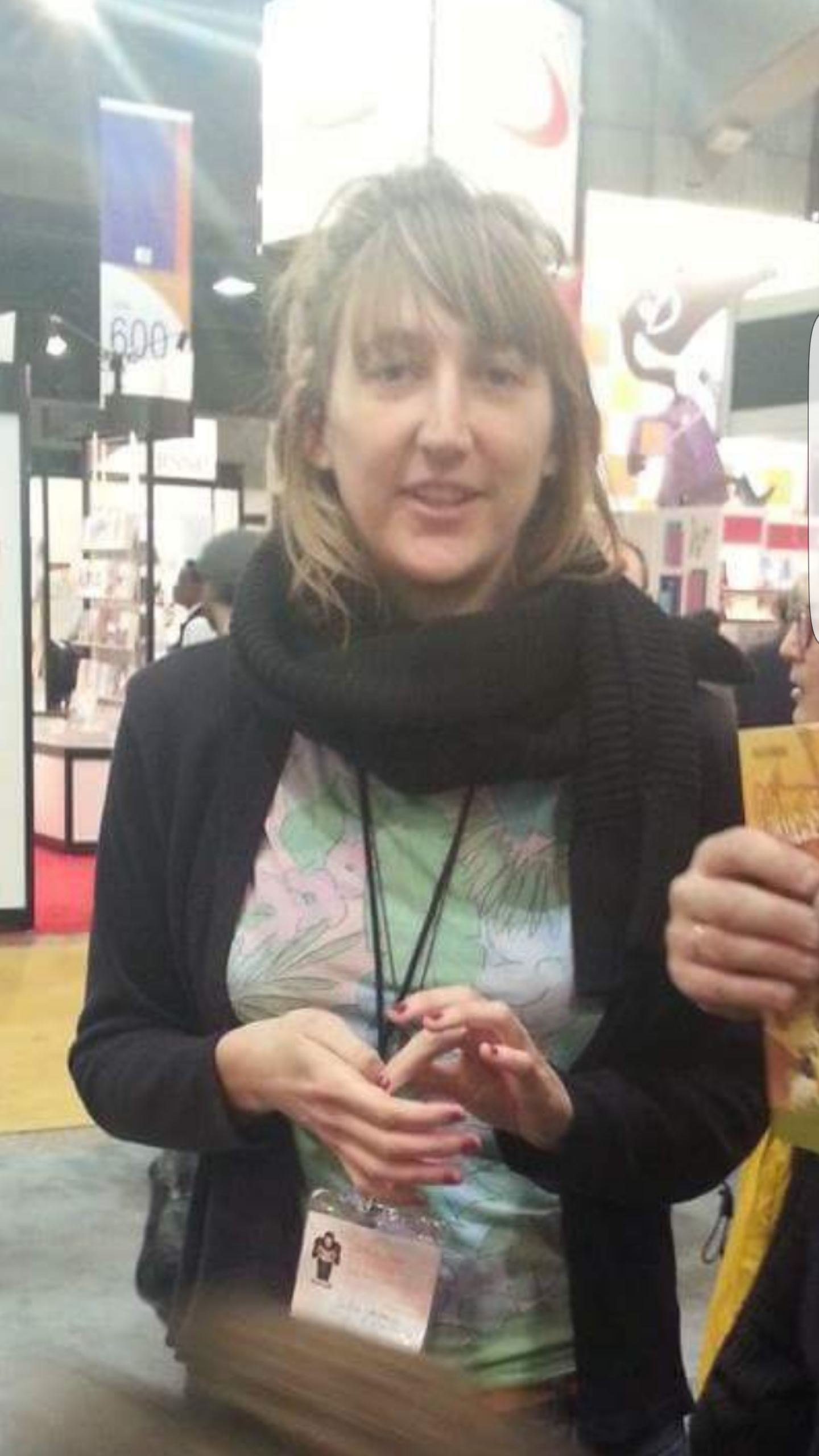 Julie Delporte photographed in Montreal, Quebec, Canada at the Salon du livre de Montréal 2016.